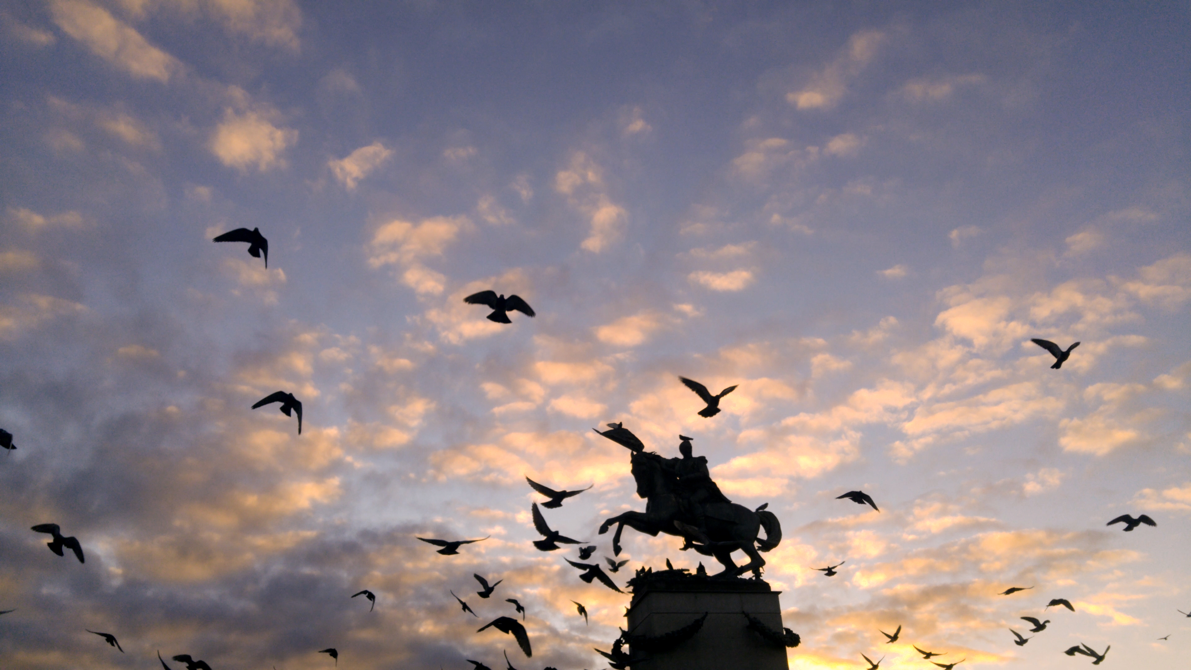 Sunrise in Plaza Barrios, Zone 1 Guatemala City by Fabriccio Díaz